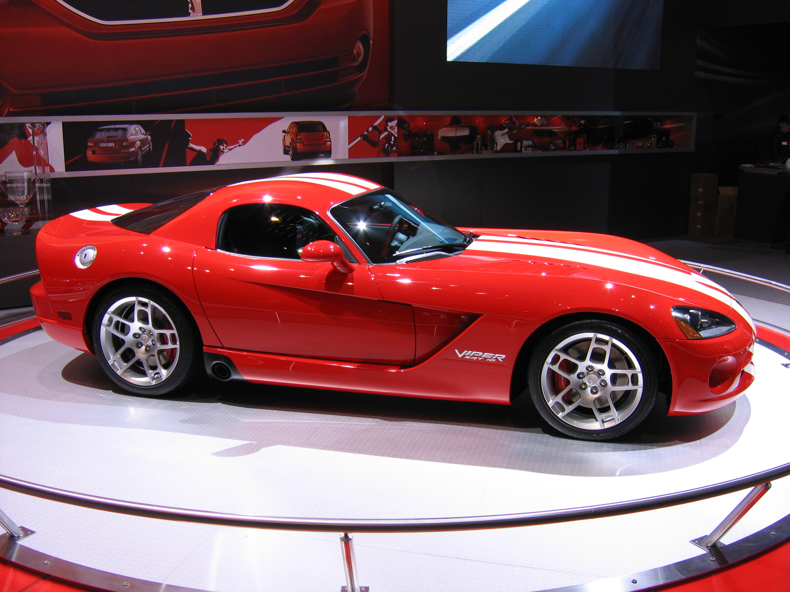 Geneva Motor Show 2005